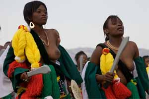 Swazi women participating in the 2009 Reed Dance Ceremony